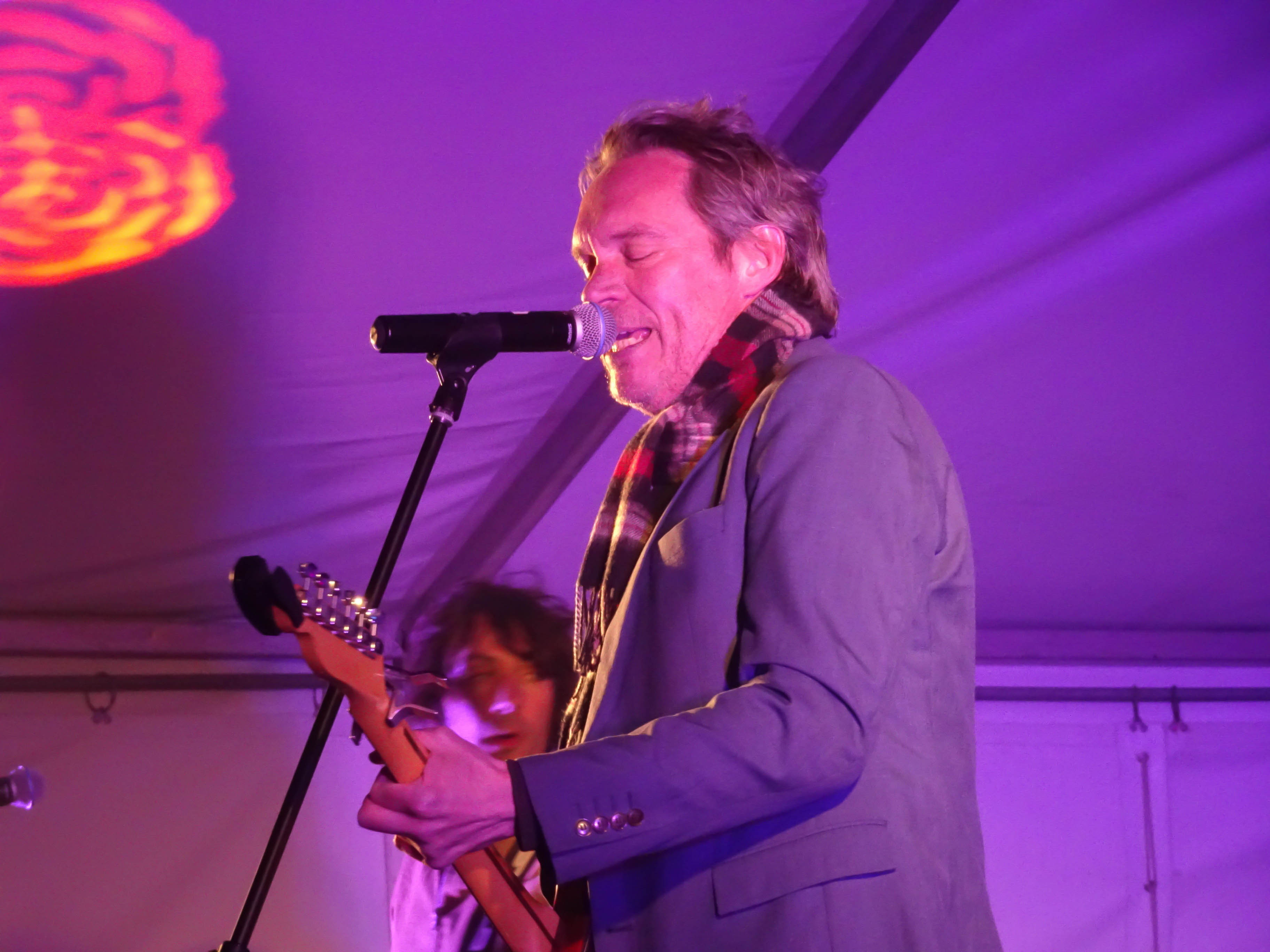 Charles Jenkins with The Zhivagos, performing at the Semaphore Music Festival, South Australia, September 30 2017.